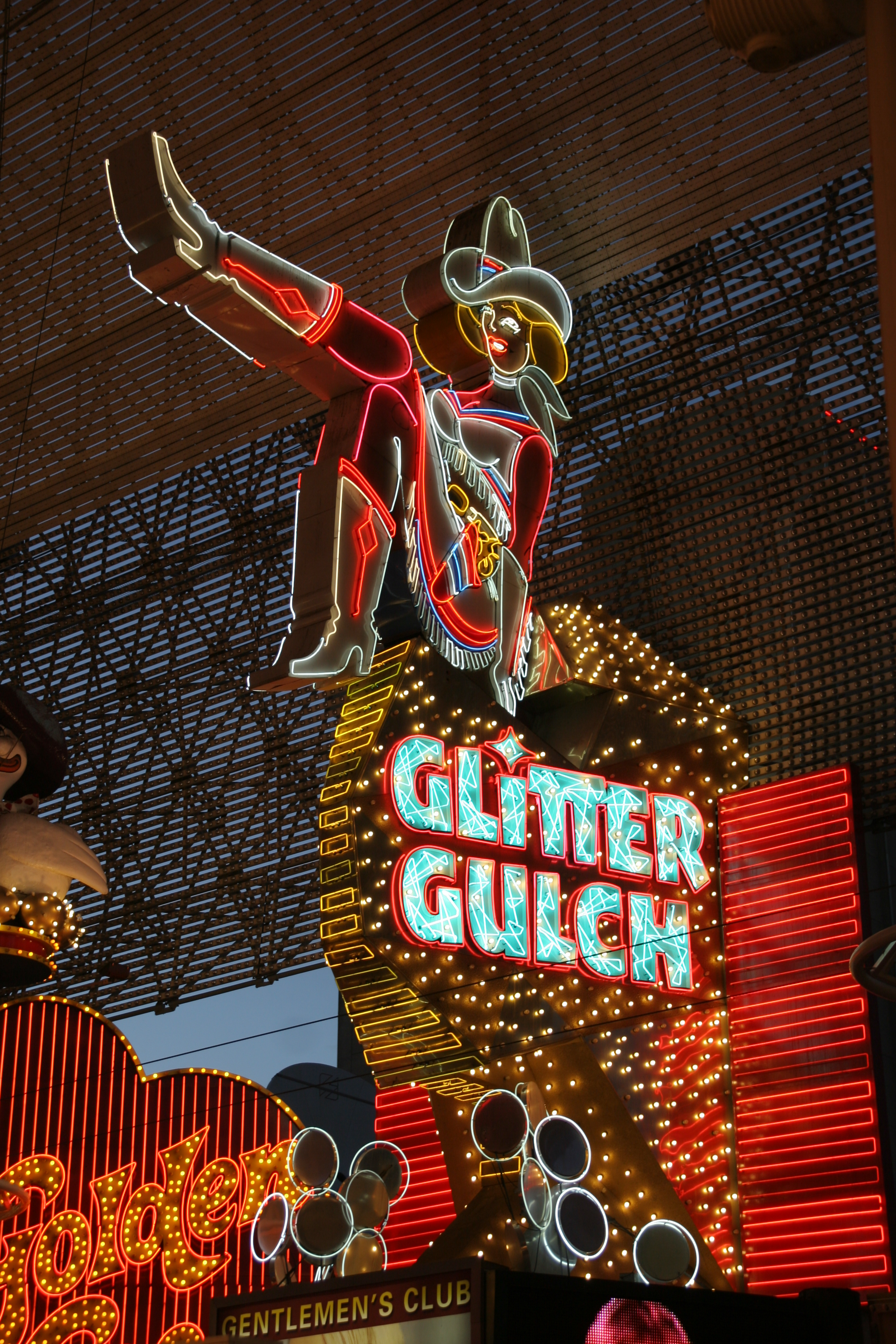 Fremont St 2